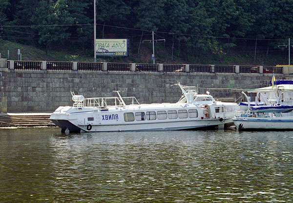 "KHVILYA" in Kiev (2003). Project 352, type "Voskhod"